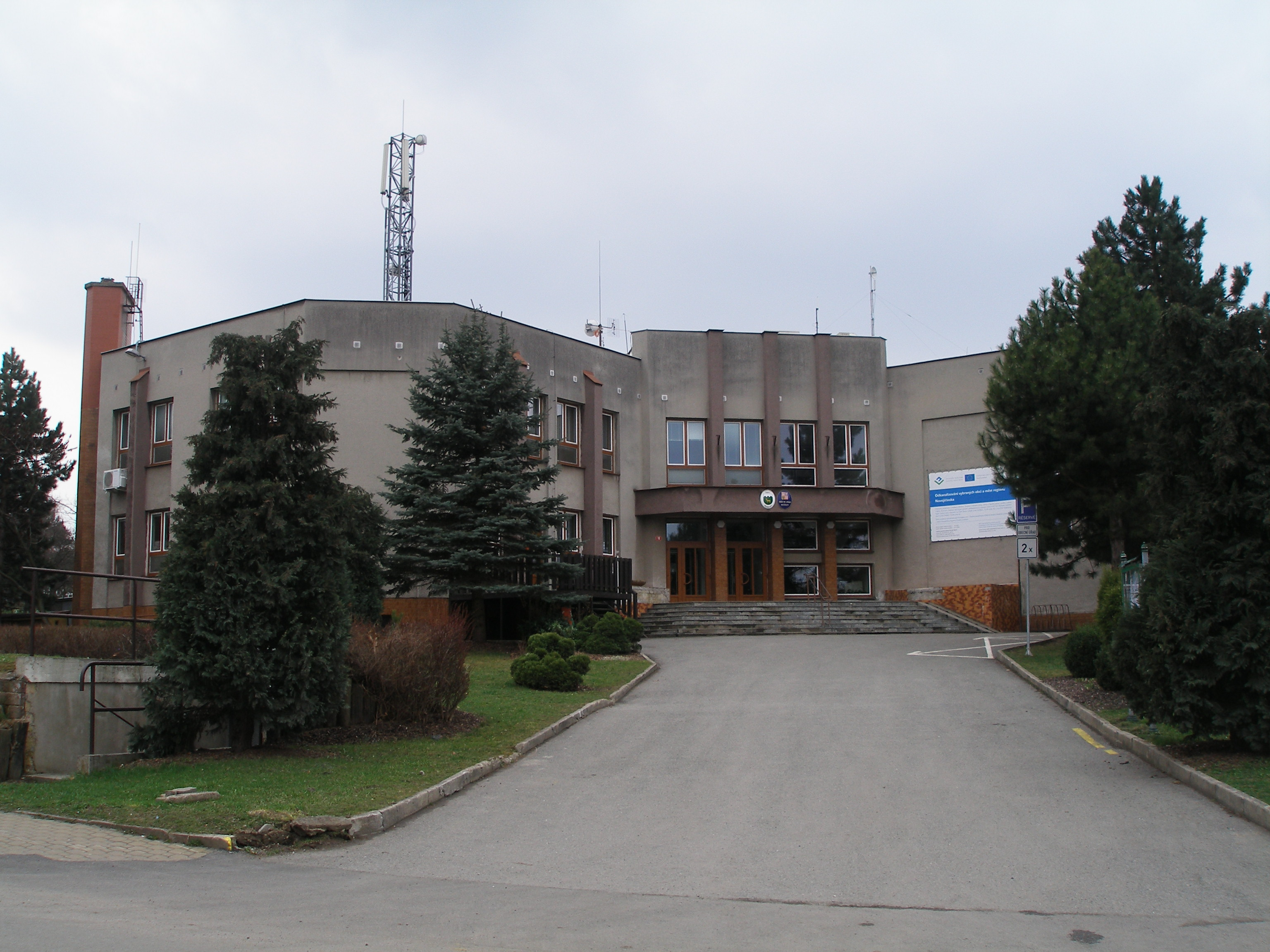 Council in Mořkov.